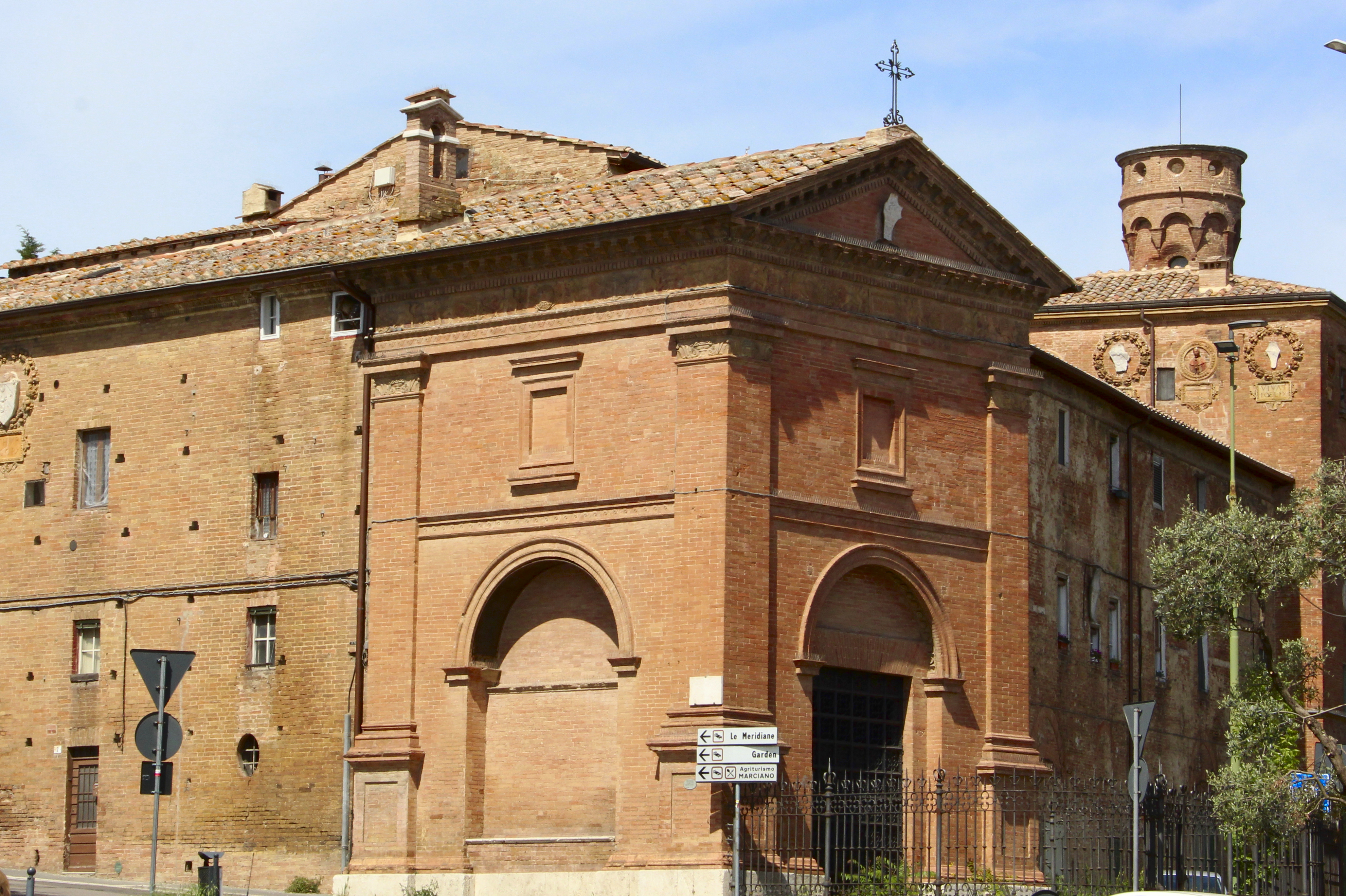 Palazzo dei Diavoli (also Palazzo dei Turchi), north of Siena, Siena, Province of Siena, Tuscany, Italy